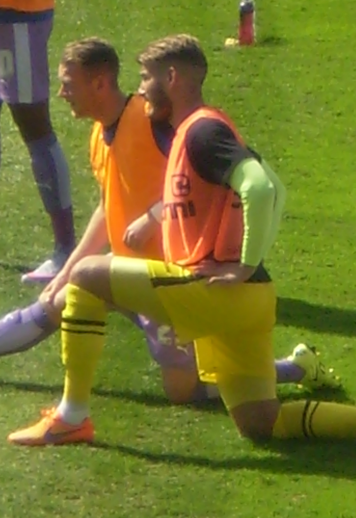 Adam Legzdins (foreground) of Birmingham City F.C. warming up during a match against Reading in August 2015